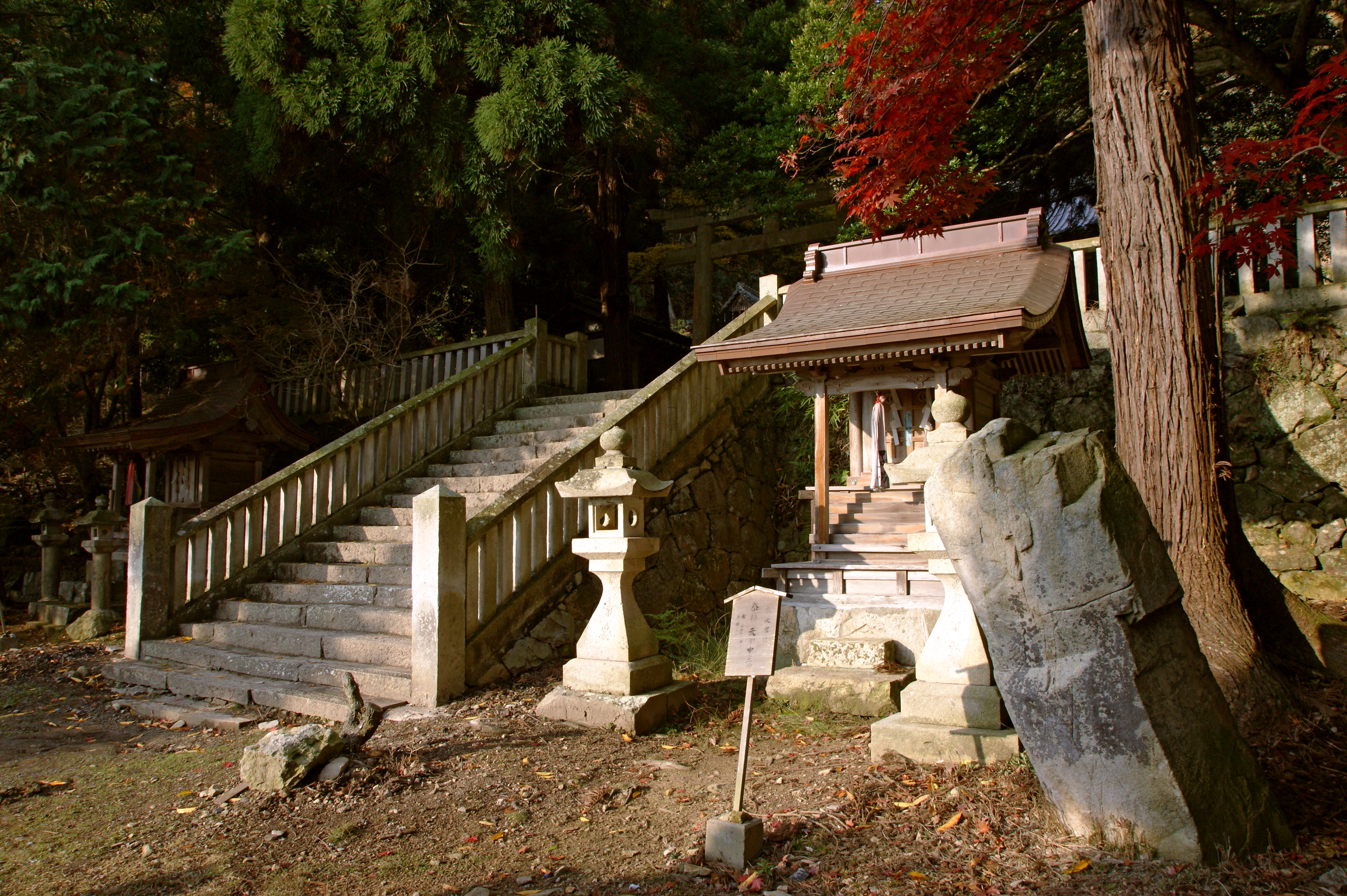 Tatsuno-jinja in Tatsuno, Hyōgo prefecture, Japan